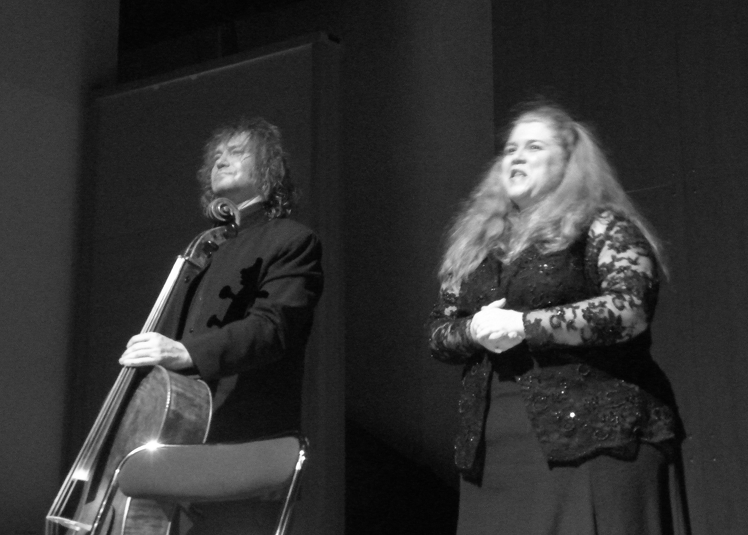 Alexander Kniazev, russian cellist, and Plamena Mangova, bulgarian pianist, on 29 January 2009, during La Folle Journée in Nantes.